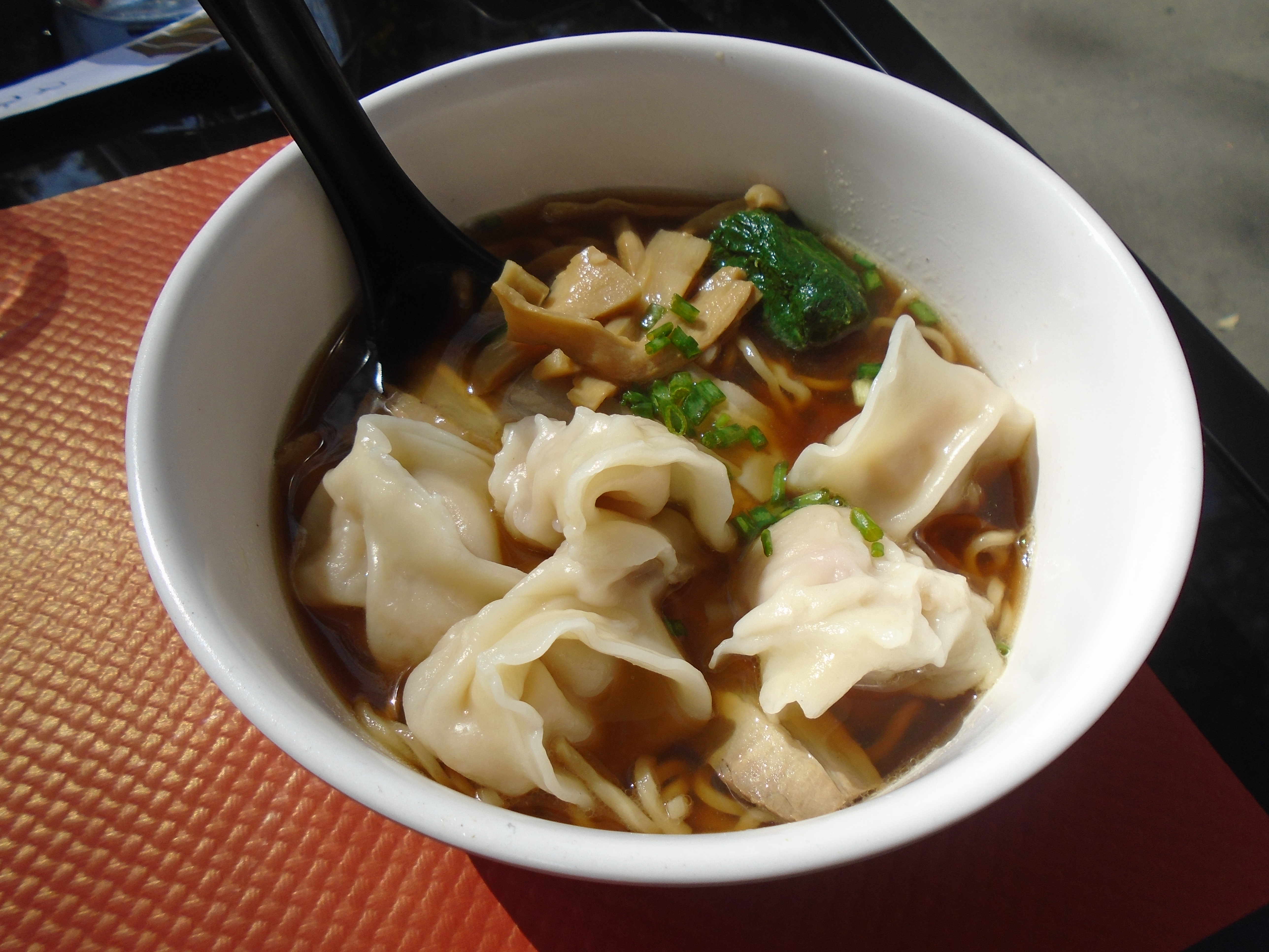 Wonton Shoyu Ramen @ Yoyo Ramen @ Paris